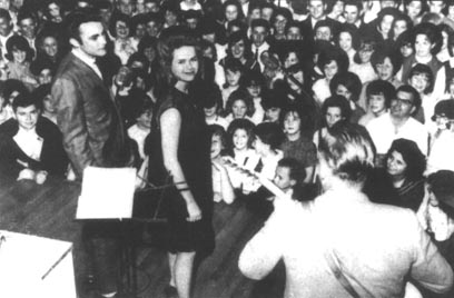 Snapshot photo of swamp pop duo Dale & Grace, circa 1963, from author's collection.